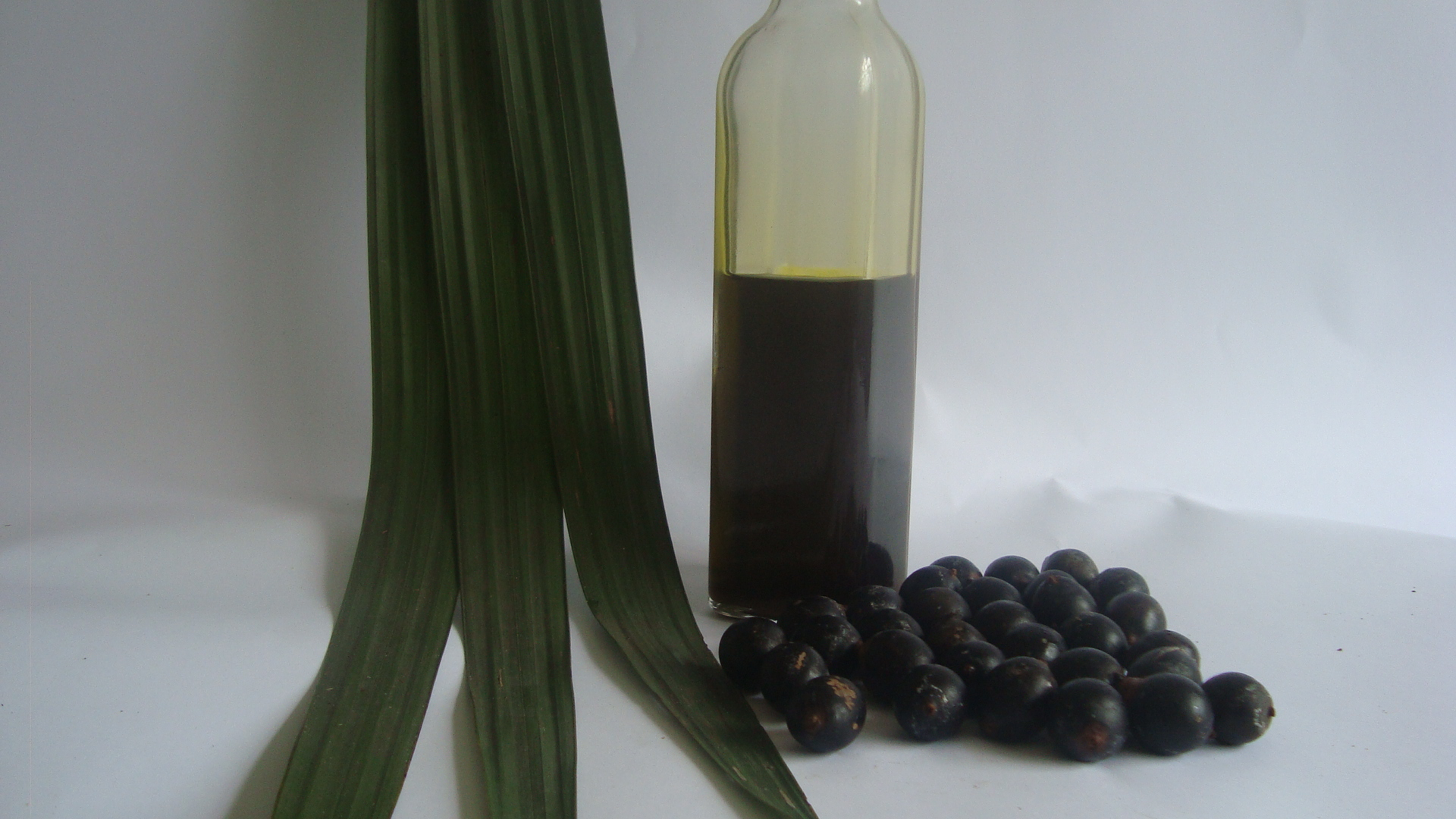 Bacaba virgin oil.